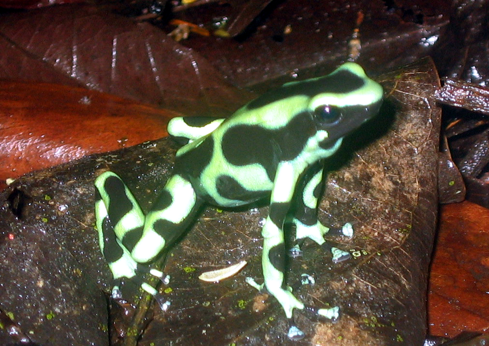 Dendrobates auratus (Green and black poison frog) from La Suerte Field Station, northeast Costa Rica.Pstevendactylus 01:36, 17 February 2006 (UTC)